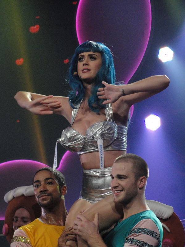 Katy Perry performing live in Seattle, WA in July 2011